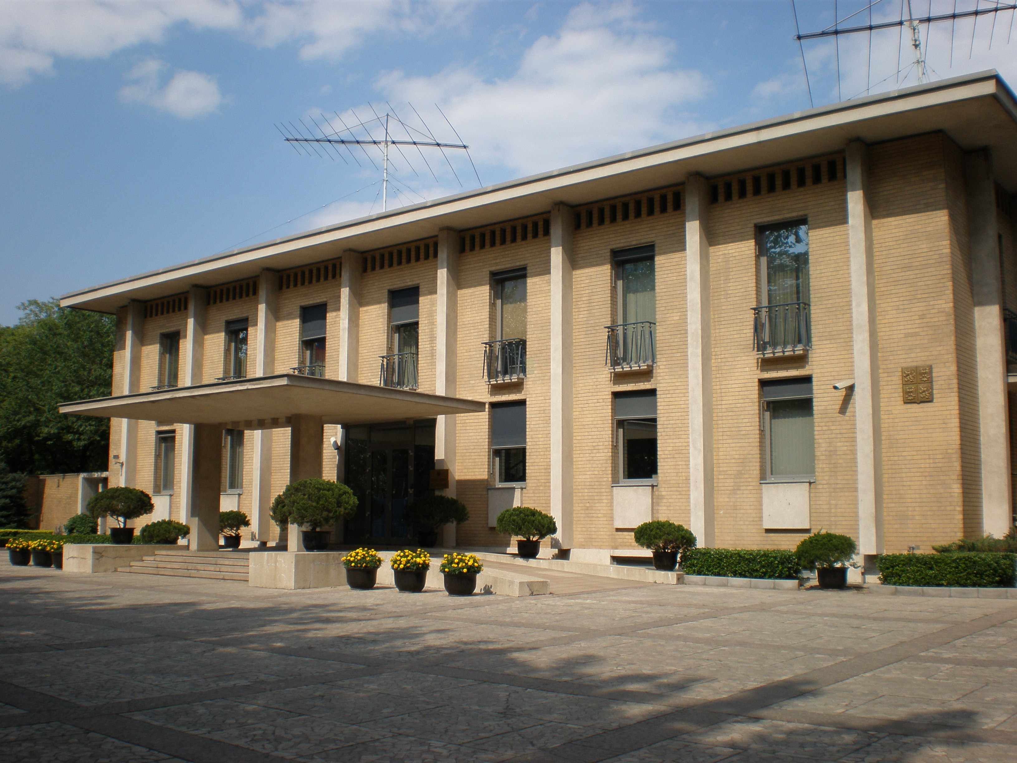 Embassy of Czechia in Beijing - China.